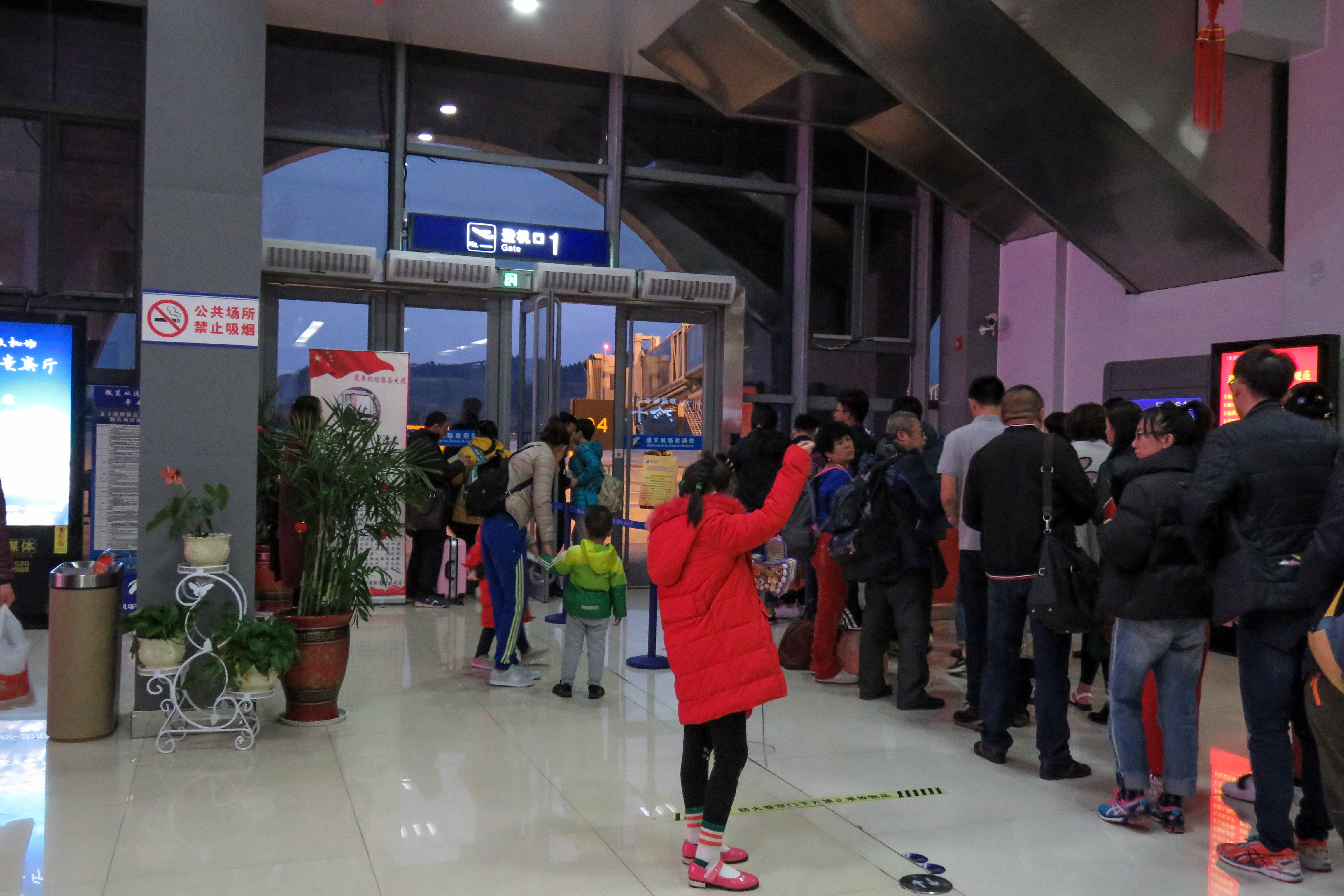 Passengers for FU6640 (Sanya-Zunyi-Harbin) were seen re-boarding. Hainan is commonly joked as the "4th province of the northeast".